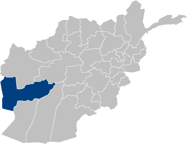 Location map for Farah Province in Afghanistan. Original map source: Image:Afghanistan_provinces_blank.png